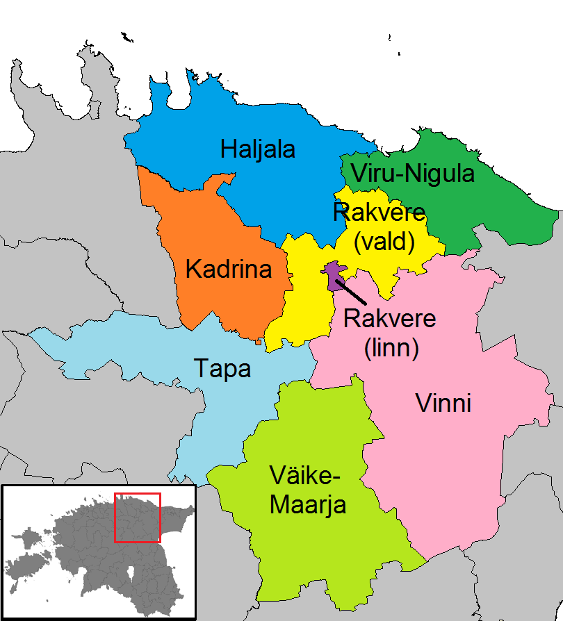 Map of the municipalities of Lääne-Viru County after the Administrative Reform of Estonia in 2017.